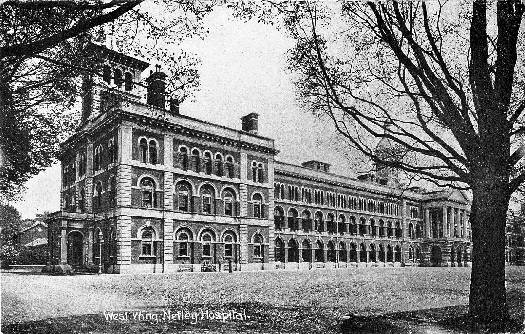 West Wing, Netley Hospital Archives & Manuscripts Keywords: naval & military